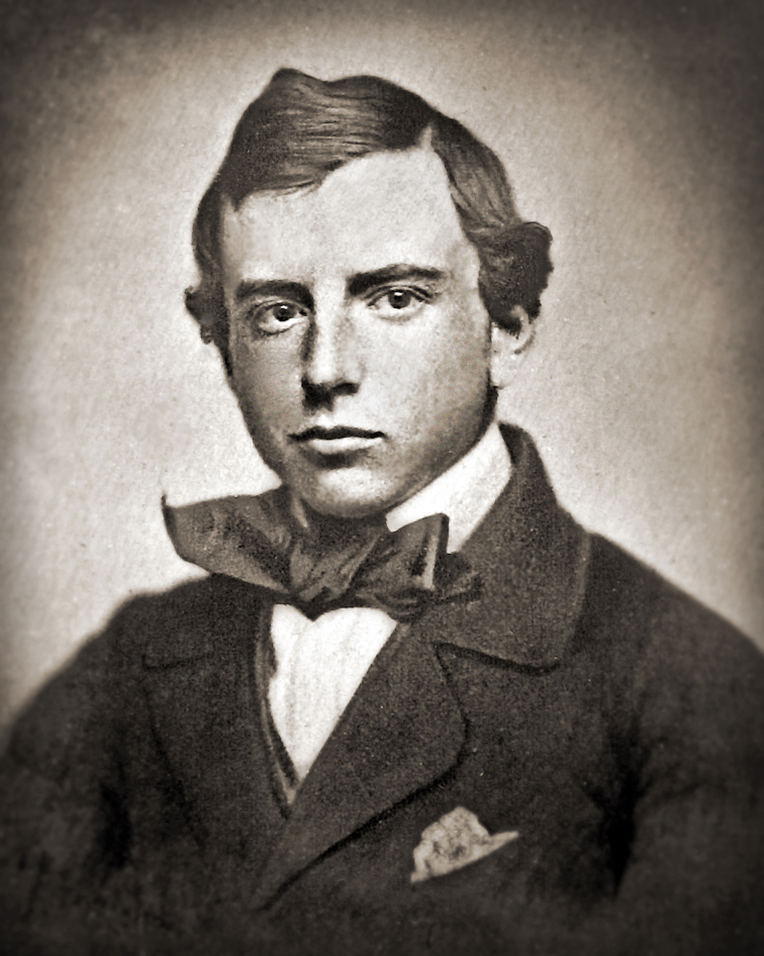 Harvard graduation photo of Henry Brooks Adams, author of 'The Education of Henry Adams'